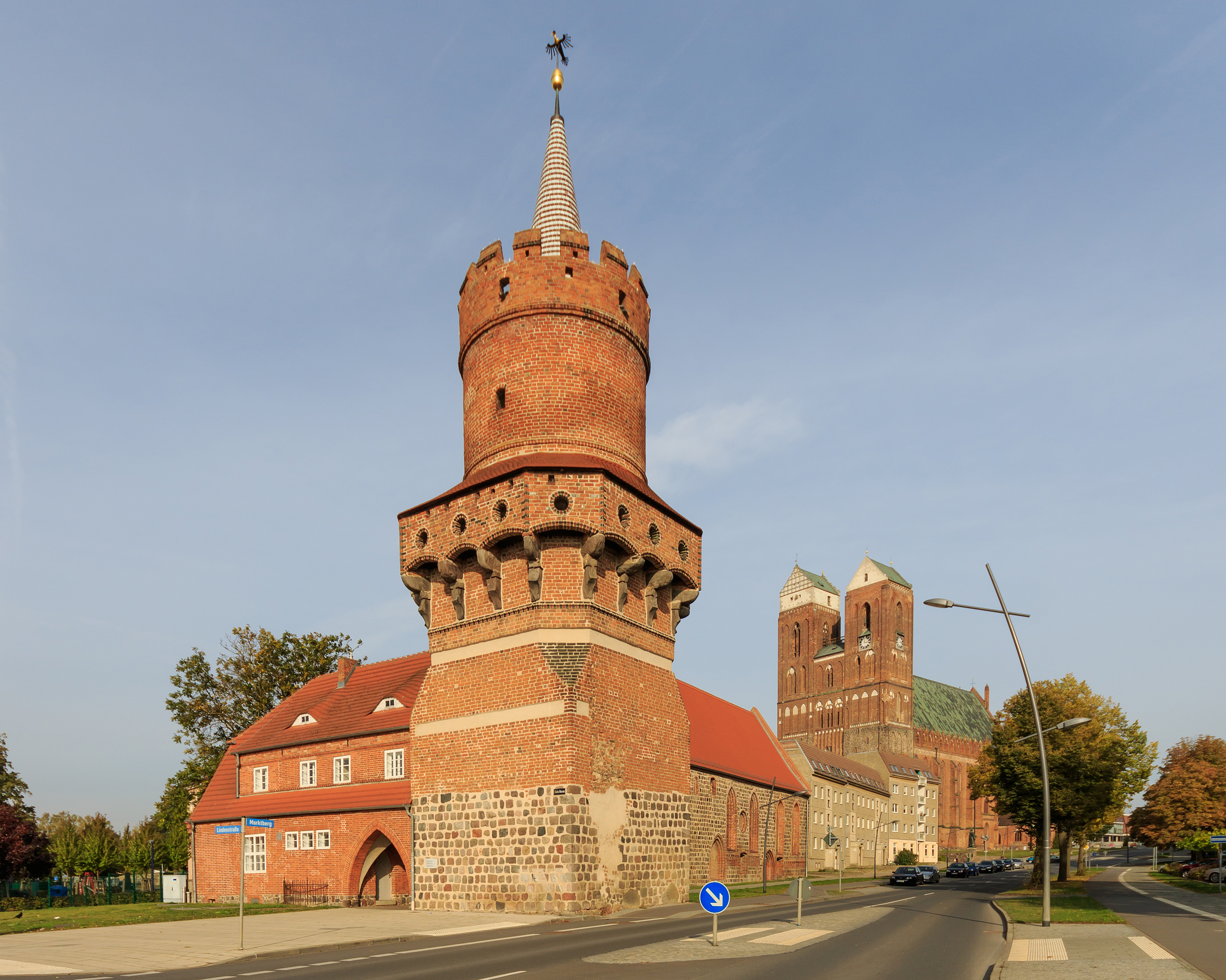 Old city wall and towers in Prenzlau, Brandenburg, Germany